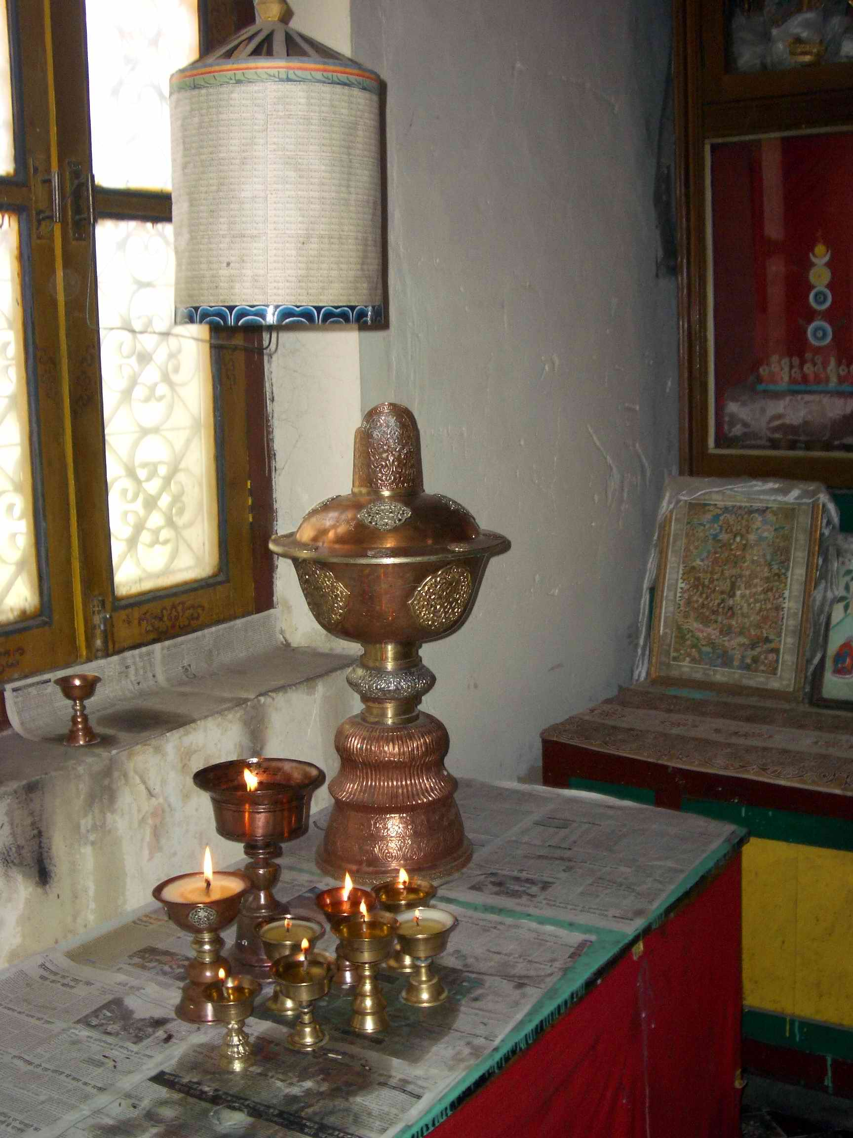 Photo of a prayer wheel powered by the hot air produced by a candle in a Tibetan monastery in Manali, India.